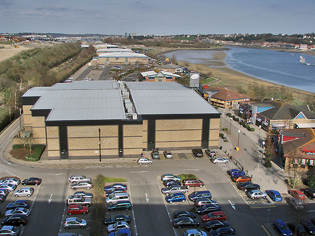 Medway Valley Leisure Park A new cinema complex and fast food restaurant park, looking towards Rochester.